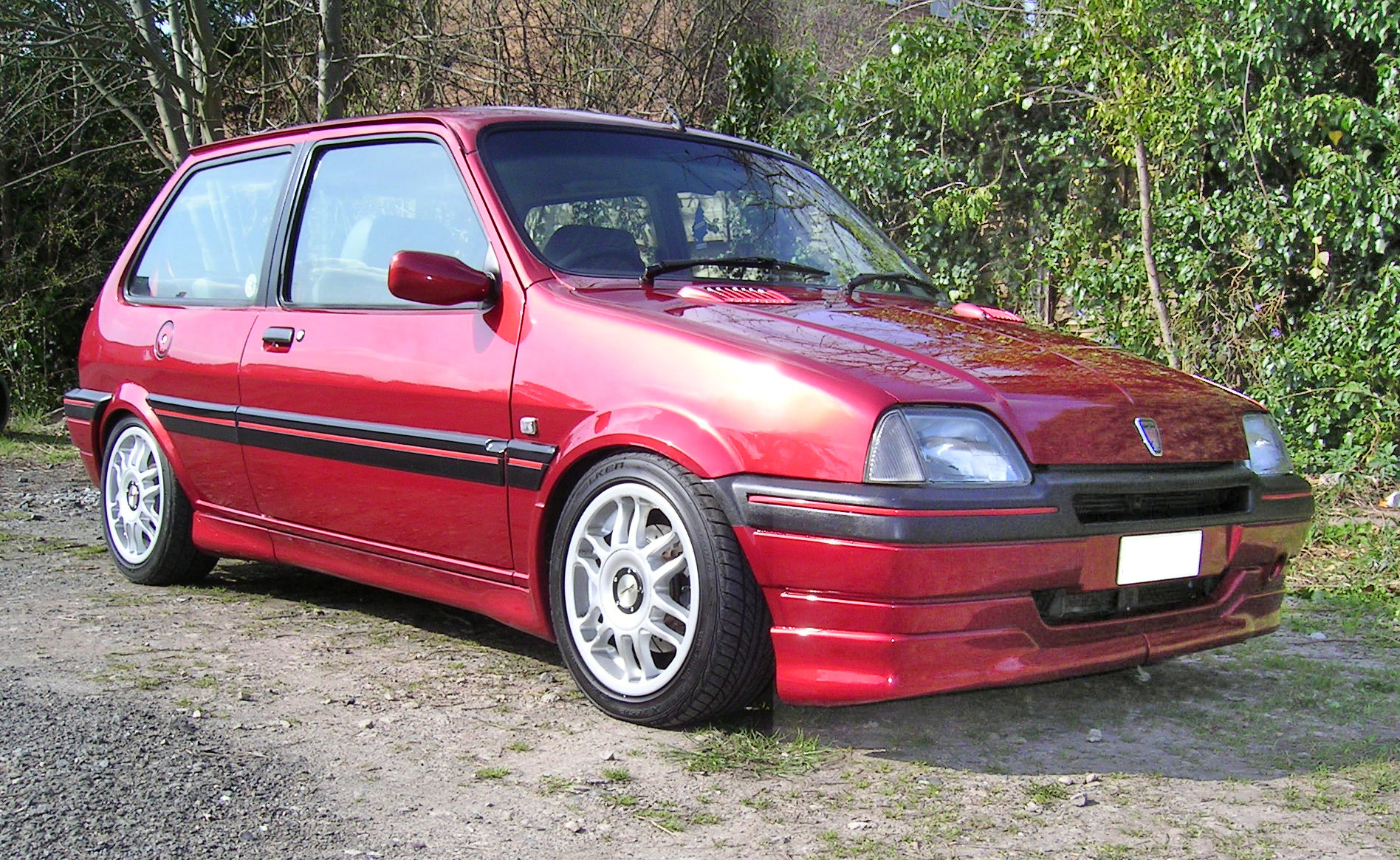 Rover Metro Modified